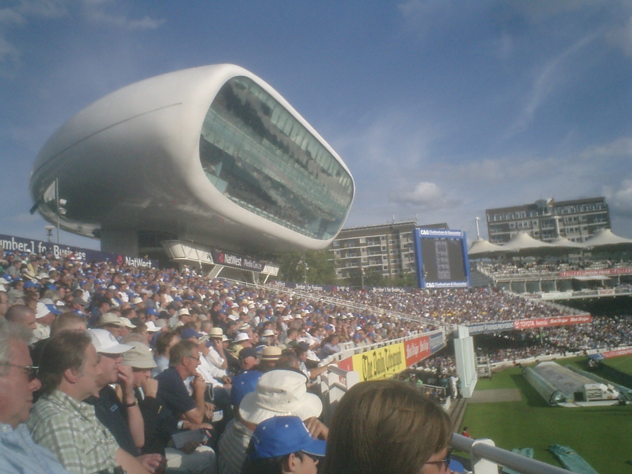 Media Centre at Lord's Cricket Ground, London, England. Photographed on 28 August 2004 by Edward.